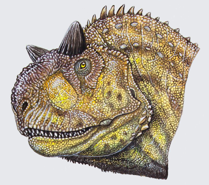 Hypothetical reconstruction of Carnotaurus showing the soft tissues on the head inferred from osteological morphology of the skull.